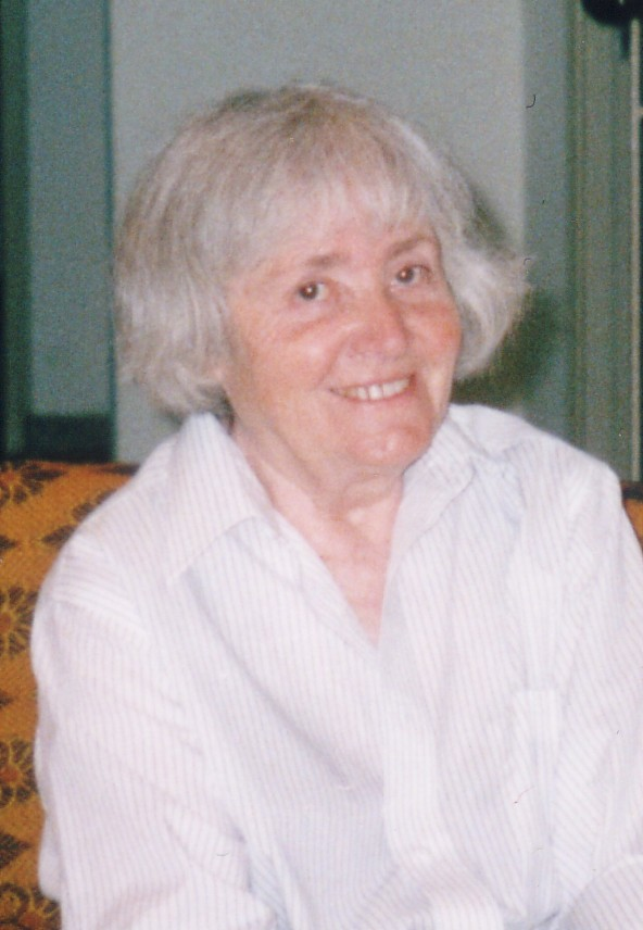 photo of Inna Solomonik